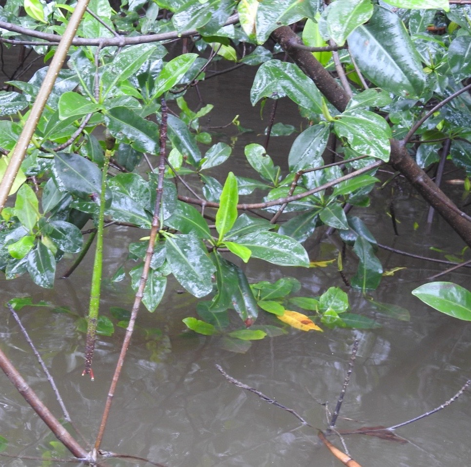 Mature seedling of red mangrove with elongated embryonic root